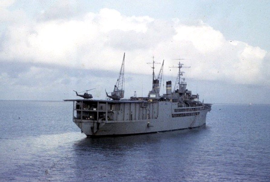 The U.S. Military Sealift Command helicopter repair ship USNS Corpus Christi Bay (T-ARVH-1) at anchor off Vung Tau, South Vietnam, circa 1967-1969. From 1940 to 1966 the ship had been the seaplane tender USS Albemarle (AV-5).